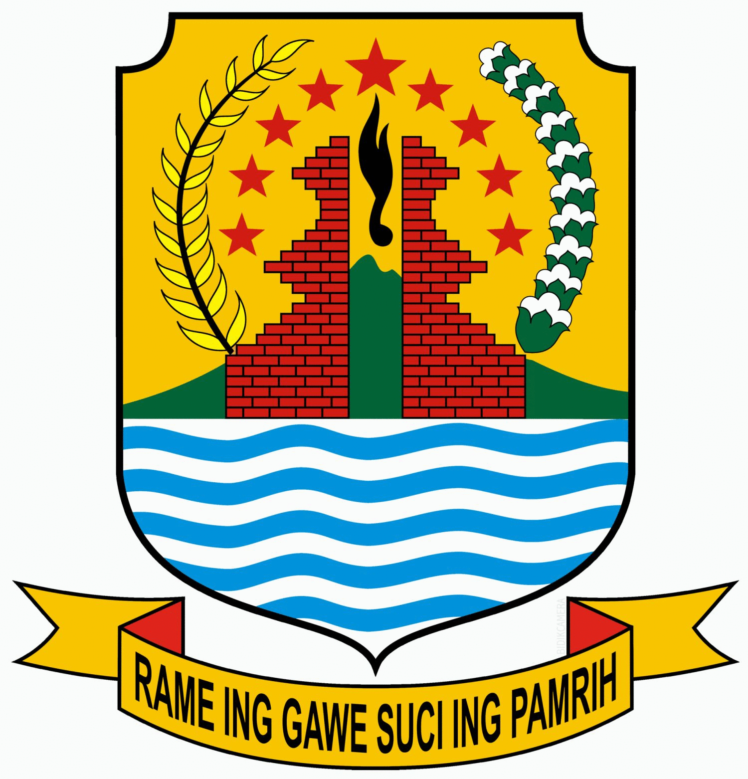 Lambang (Coat of Arms) of Kabupaten (Regency) of Cirebon, provinsi Jawa Barat (West Java Province), Indonesia